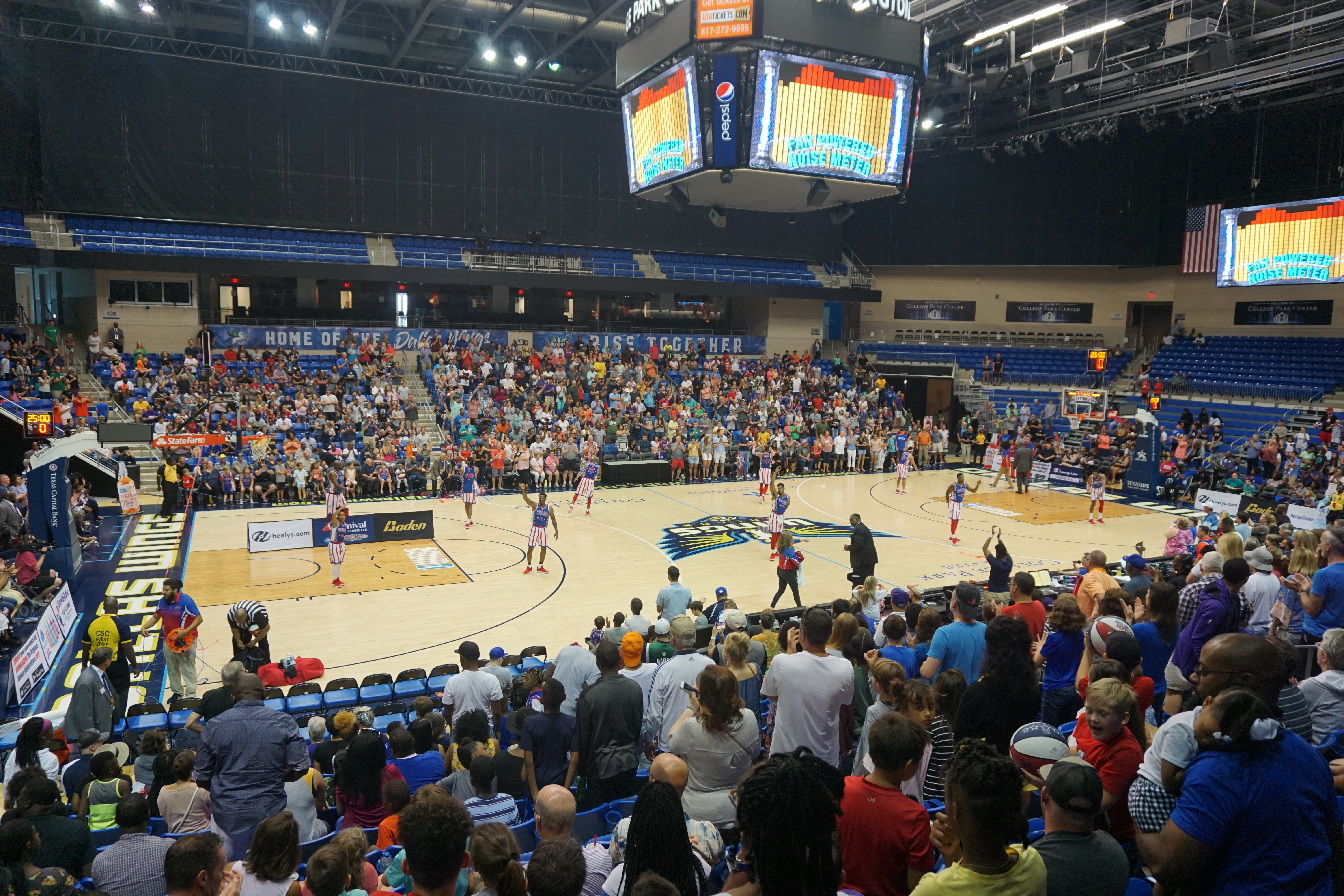 The Globetrotters celebrating after winning the Washington Generals vs. Harlem Globetrotters basketball game at College Park Center in Arlington, Texas (United States).